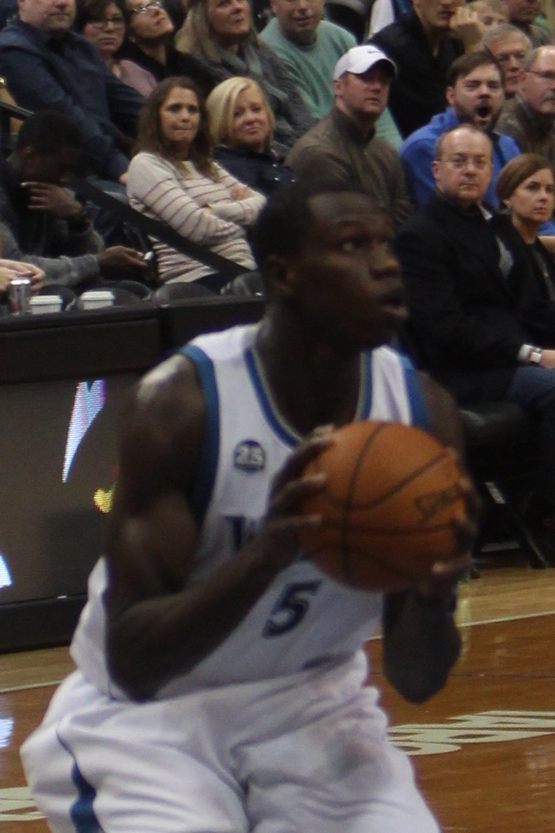 Gorgui Dieng